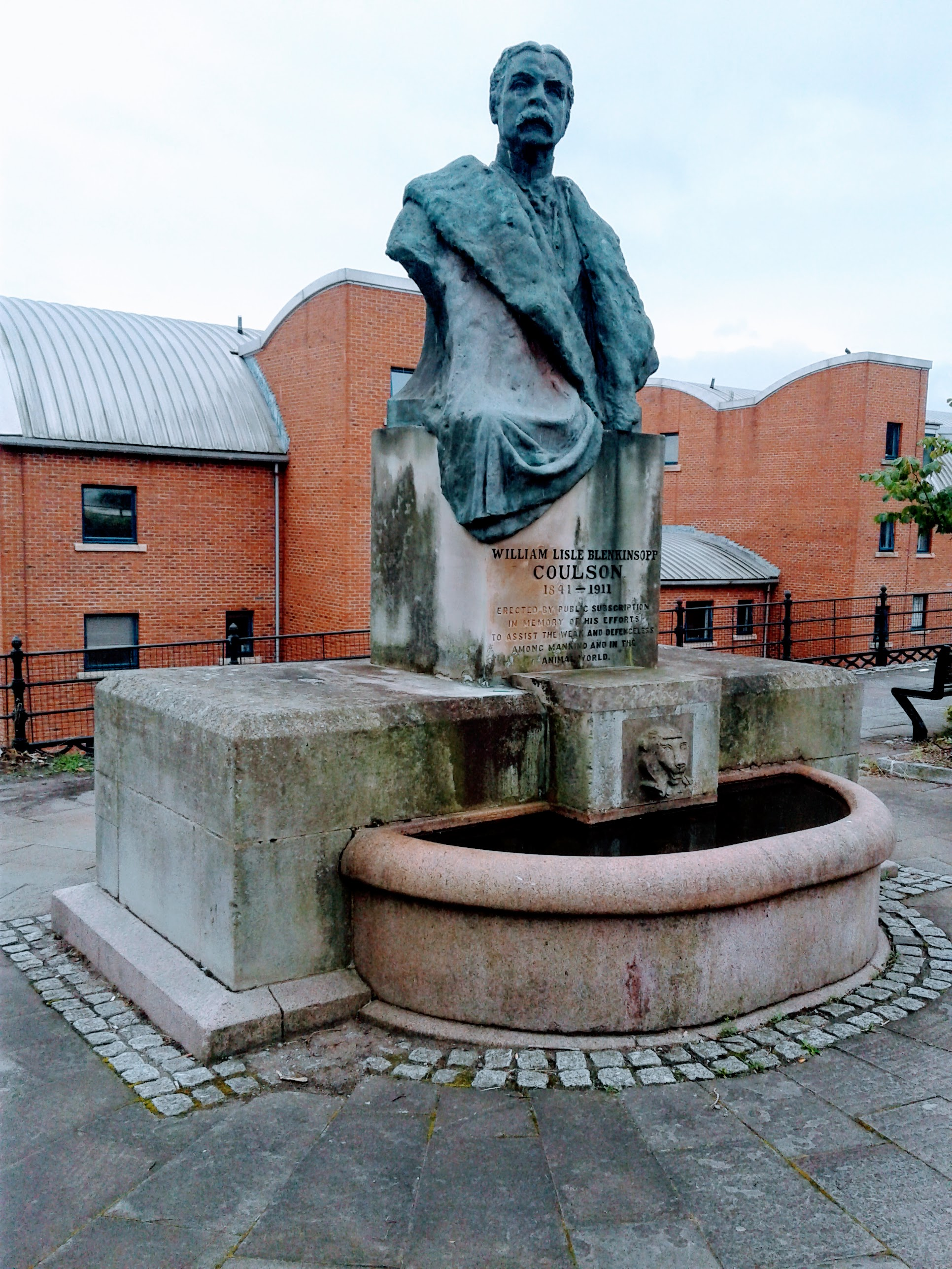 Memorial to William Lisle Blenkinsopp Coulson (1841-1911) at Horatio Street in Newcastle upon Tyne. Originally located in the Haymarket and moved to its present location in 1950. Sculptor was Arnold Rechberg. Unveiled in 1914.